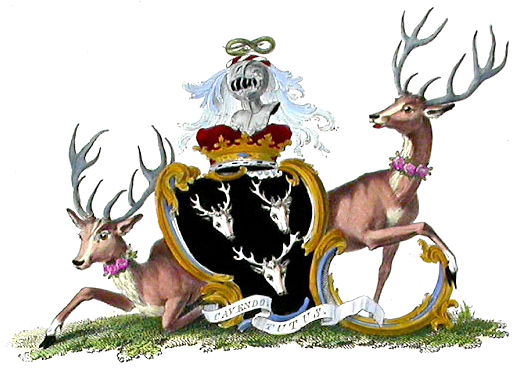 Coat of arms Duke of Devonshire. With the motto "Cavendo tutus".